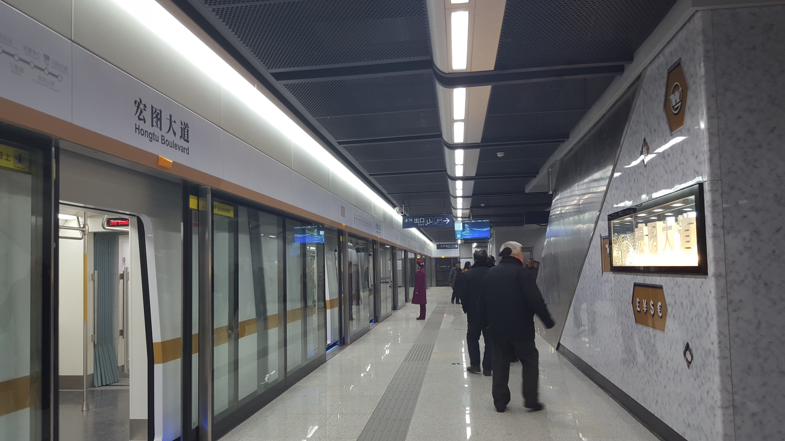 Platfrom of Hongtu Boulevard Station, Wuhan Metro Line 3